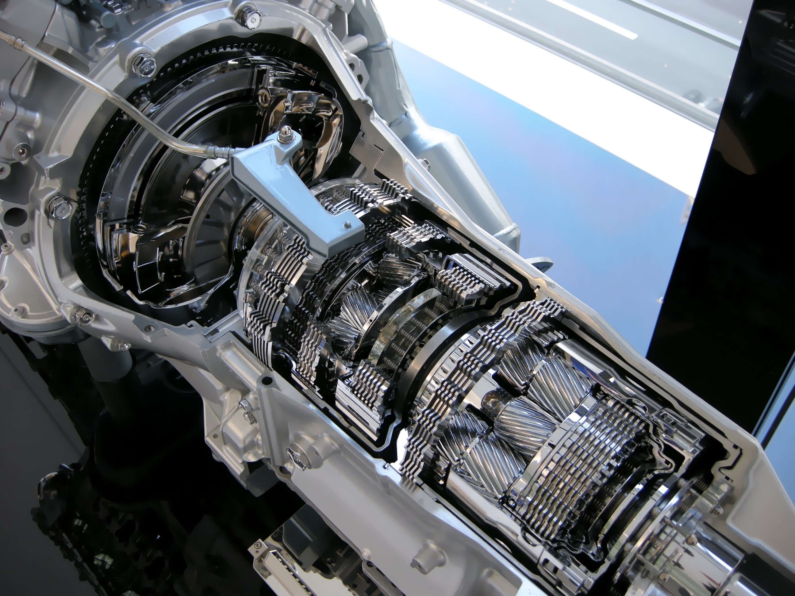 A cutaway photograph of 8-Speed Automatic Transmission (called "Sport Direct Shift") installed in Lexus IS F